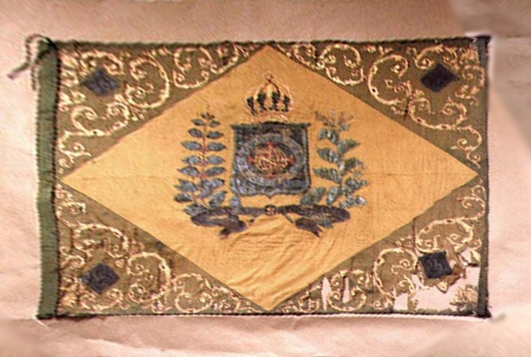 Flag of the 25th Battallion of the National Guard of the Province of São Paulo (RG 975). Acervo do Museu Paulista da Universidade de São Paulo.